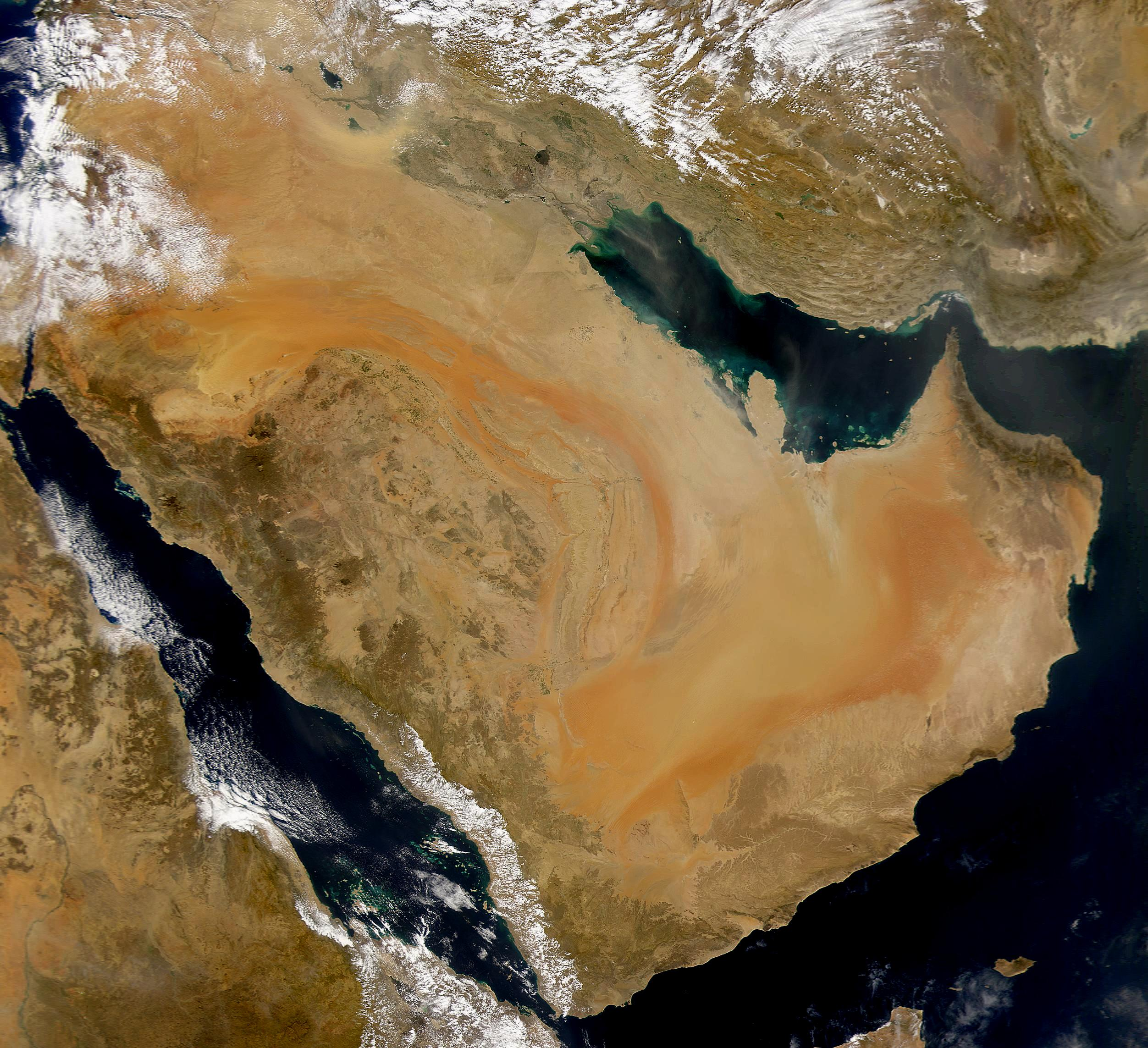 SeaWiFS collected this view of the Arabian Peninsula and of dust blowing across the Persian Gulf.